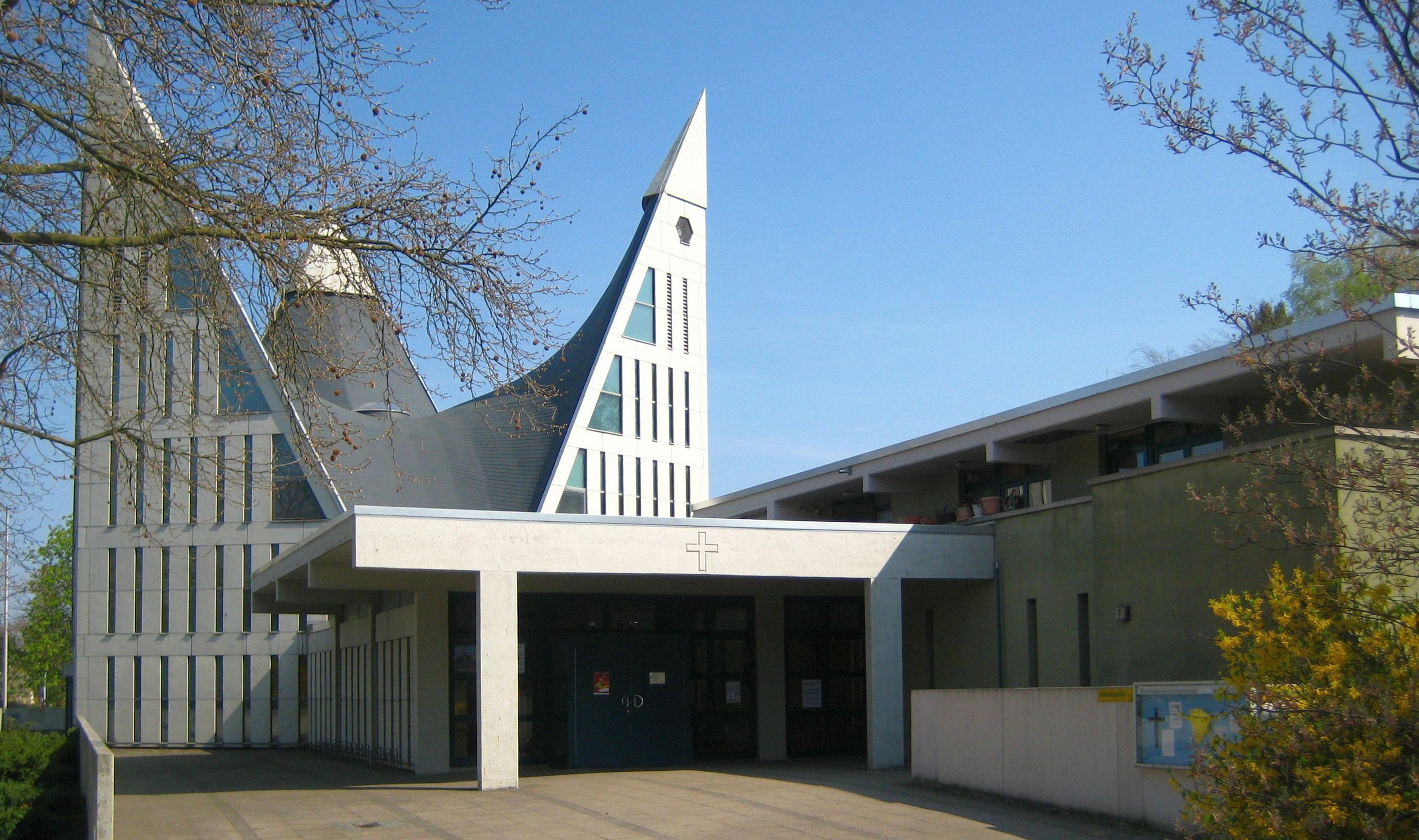 The Lutheran Dreieinigkeitskirche (Holy Trinity Church) in Berlin-Gropiusstadt, Lipschitzallee; built 1969-1971 by architect Reinhold Barwich